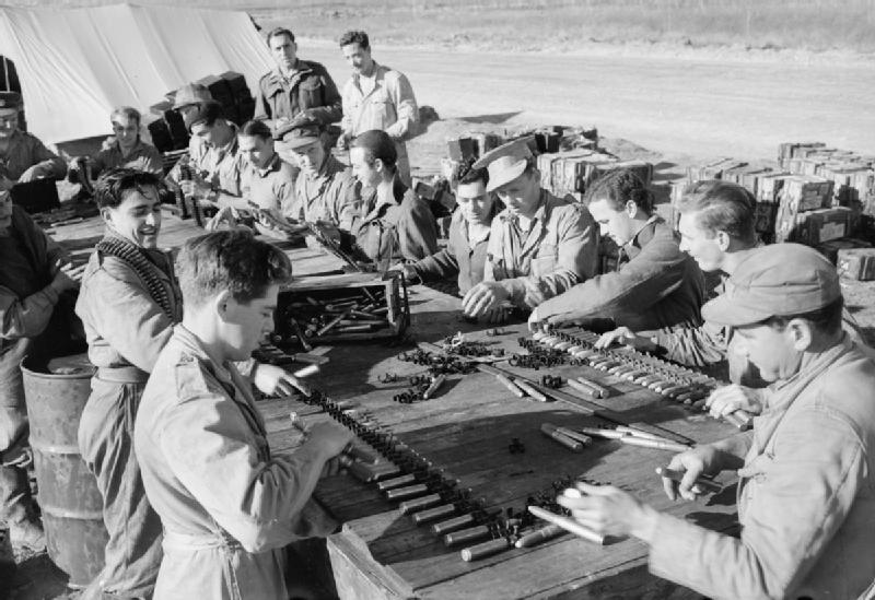 Royal Air Force- Italy, the Balkans and South East Europe, 1942-1945. Armourers of No. 2 Squadron SAAF preparing ammunition belts for their Supermarine Spitfire Mark IXs at Trigno, landing ground, Italy.